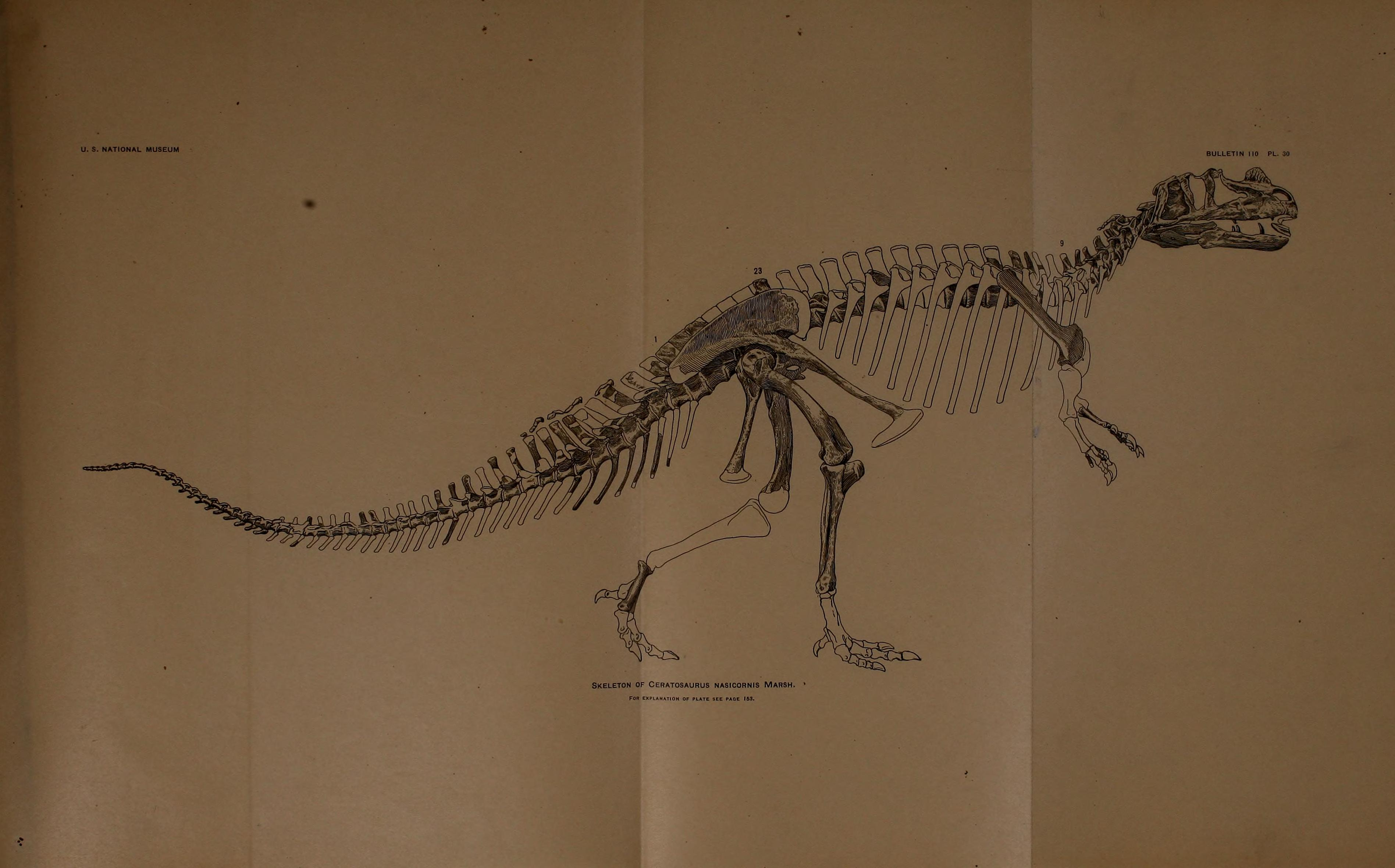 Osteology of the carnivorous Dinosauria in the United States National museum : with special reference to the genera Antrodemus (Allosaurus) and Ceratosaurus /